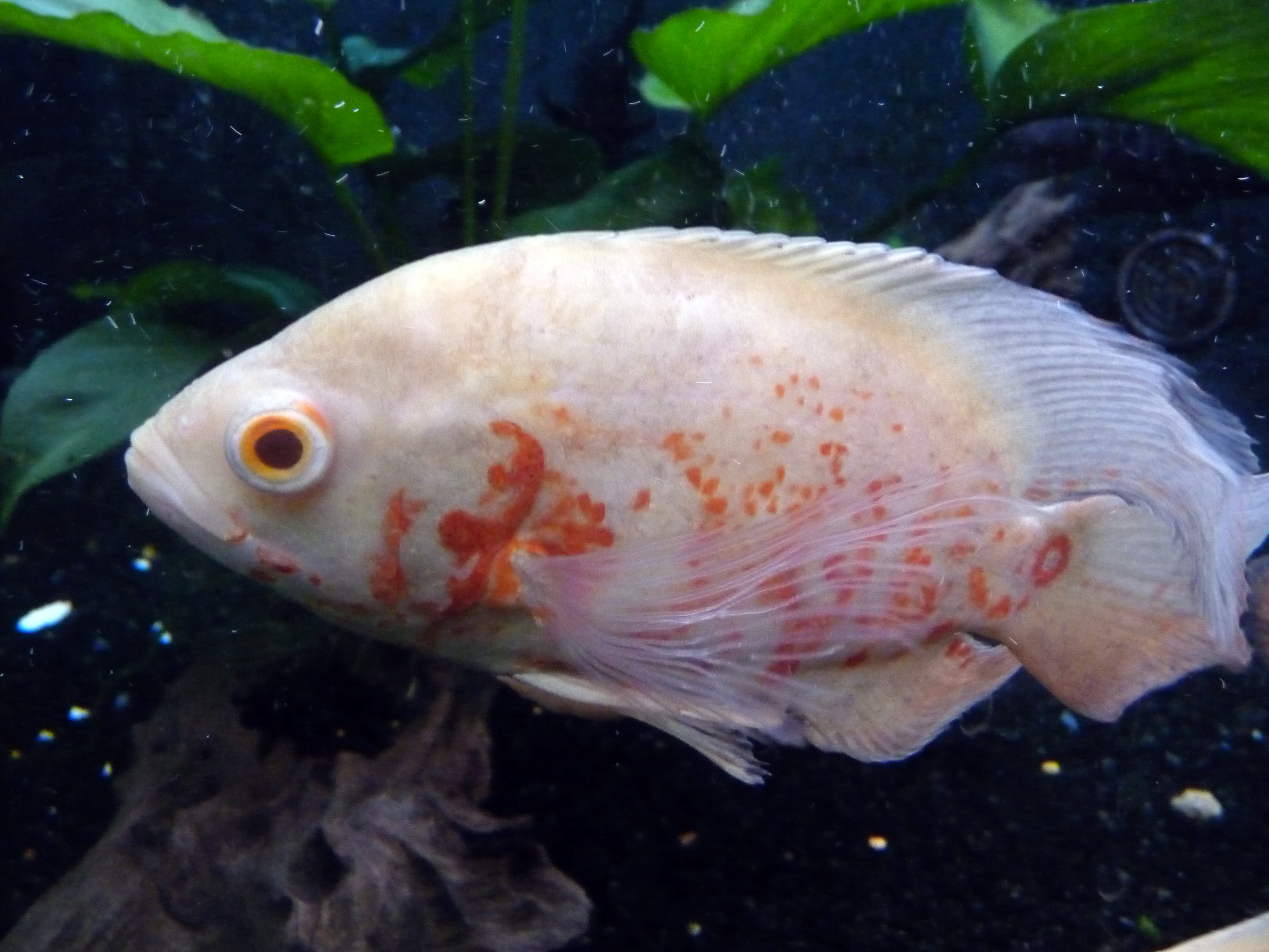 dark eyes and spotted scales show that this is a kind of leucism